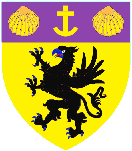 Shield of arms of The Lord Chatfield